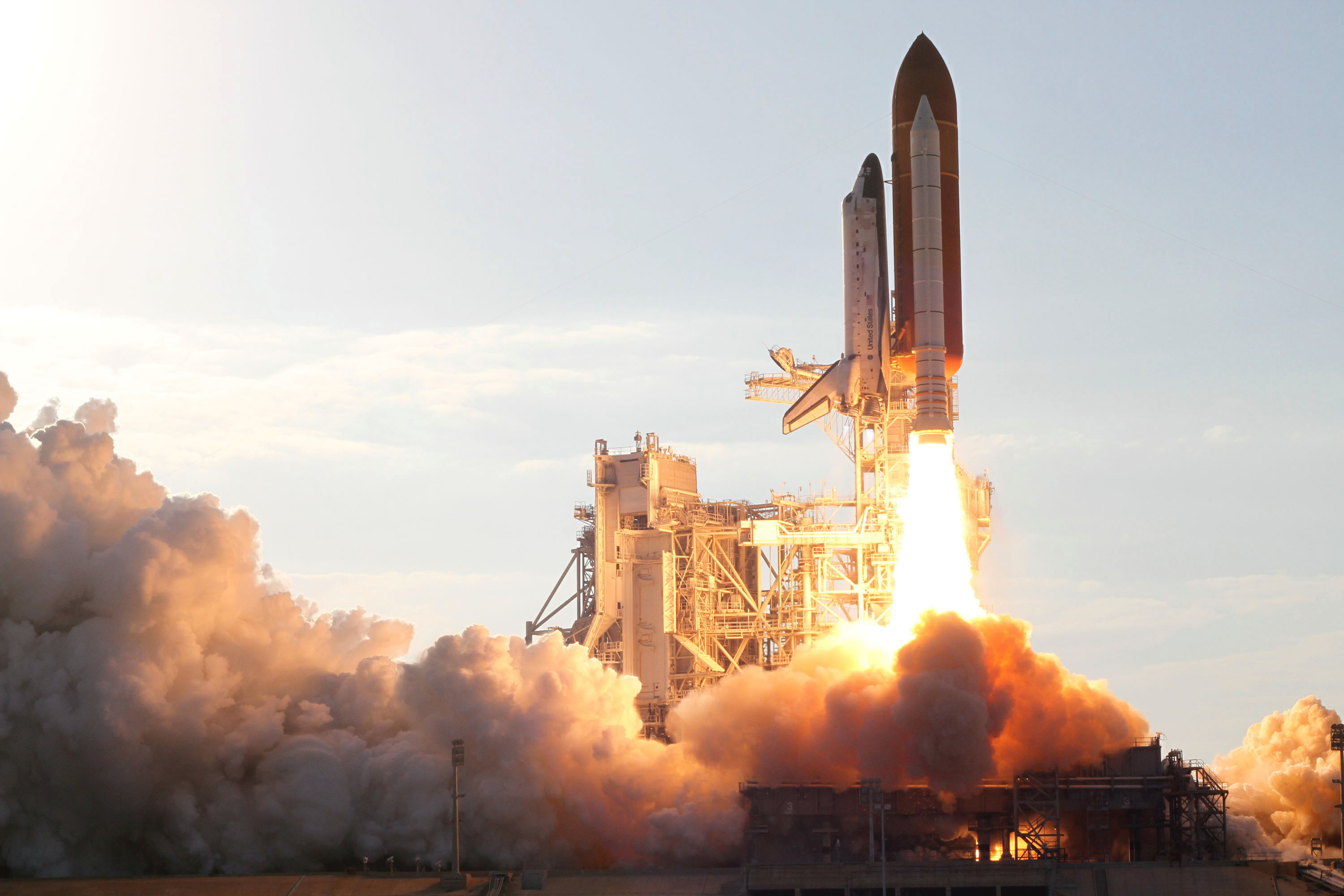 CAPE CANAVERAL, Fla. -- Rising on twin columns of fire and creating rolling clouds of smoke and steam, space shuttle Discovery lifts off Launch Pad 39A at NASA's Kennedy Space Center in Florida on a picturesque, warm, late February afternoon. Launch of the STS-133 mission was at 4:53 p.m. EST on Feb. 24. Discovery and its six-member crew are on a mission to deliver the Permanent Multipurpose Module, packed with supplies and critical spare parts, as well as Robonaut 2, the dexterous humanoid astronaut helper, to the International Space Station. Discovery is making its 39th mission and is scheduled to be retired following STS-133. This is the 133rd Space Shuttle Program mission and the 35th shuttle voyage to the space station.